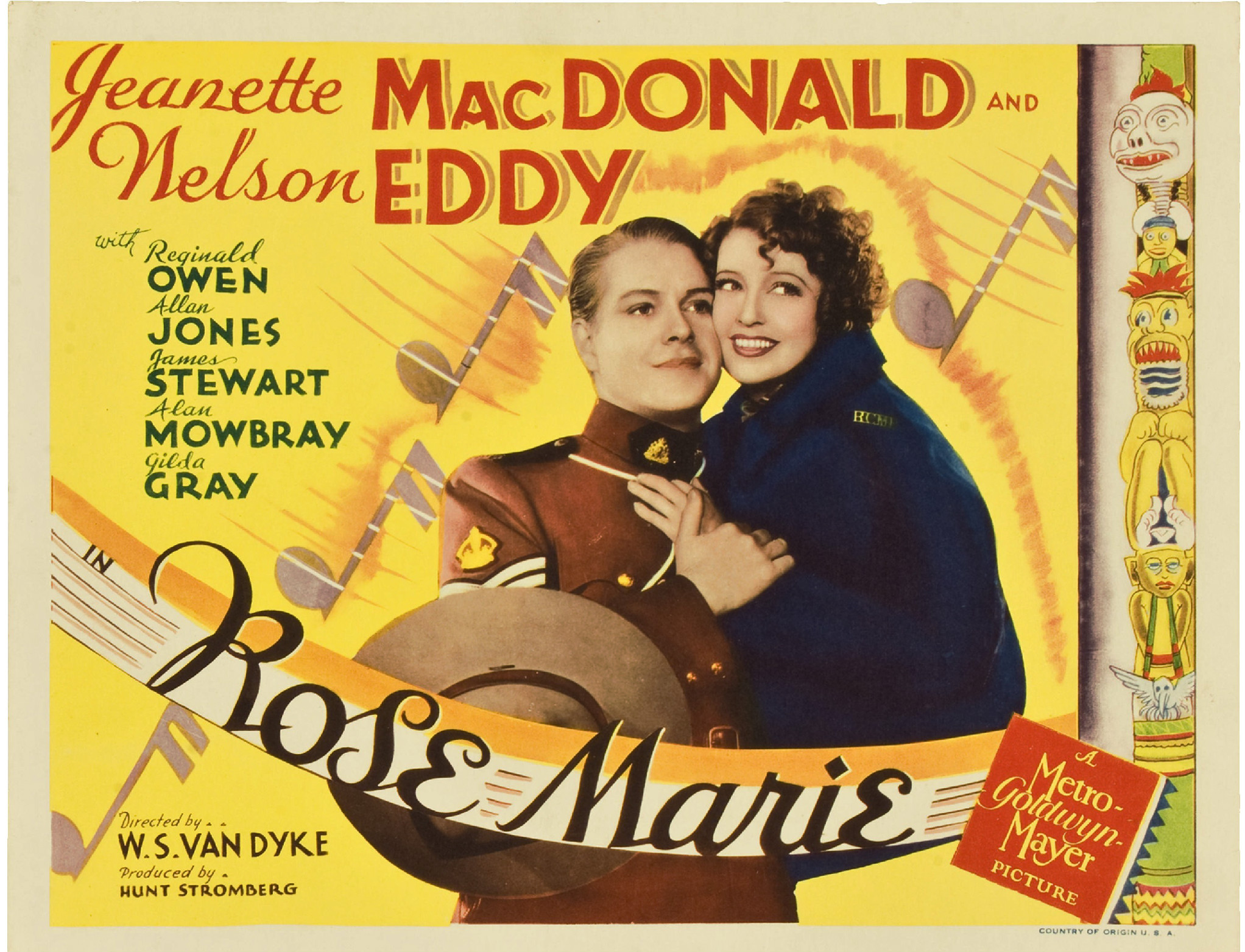 Lobby card for the American musical film Rose Marie (1936).